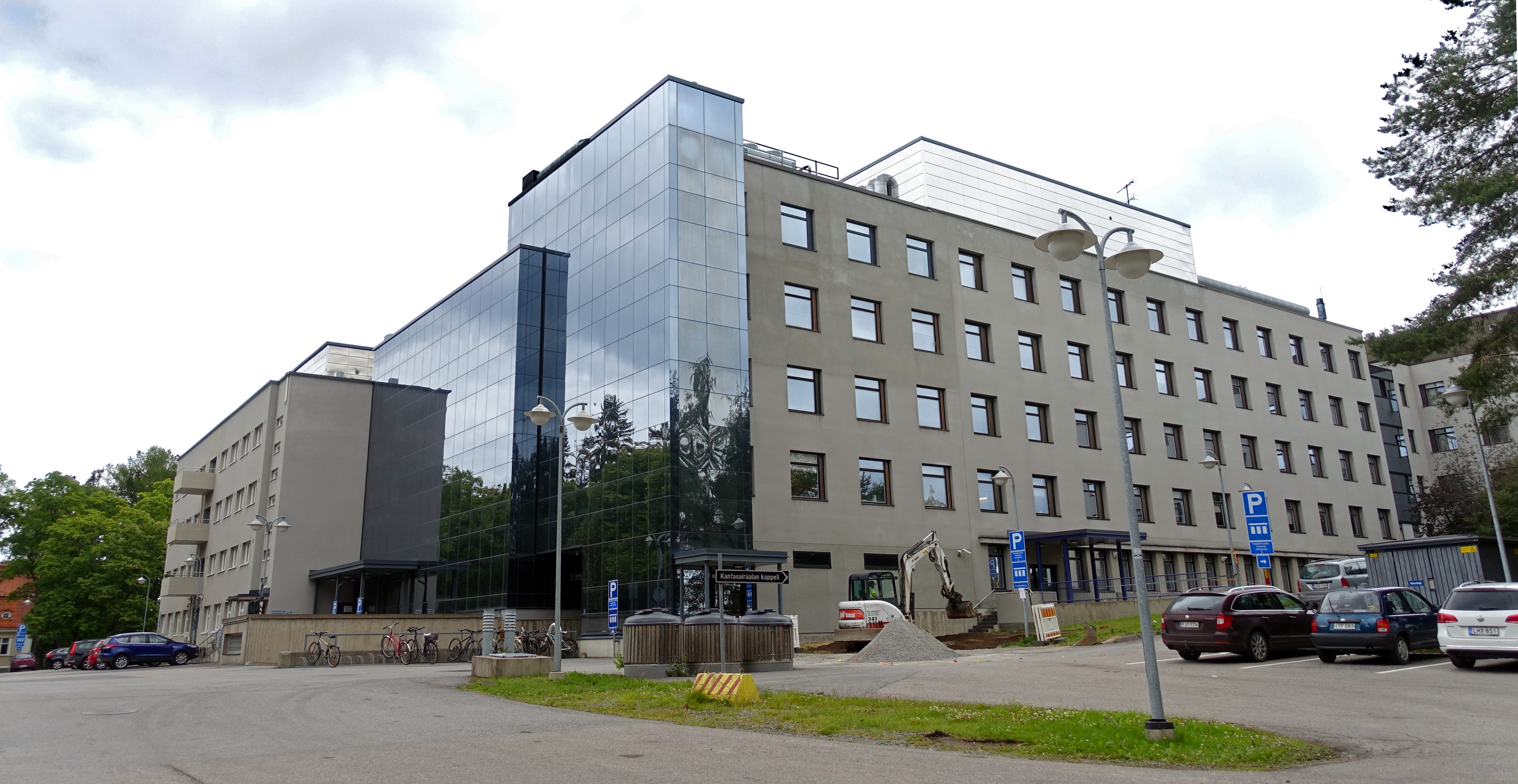 Hatanpää Hospital in Tampere, Finland.